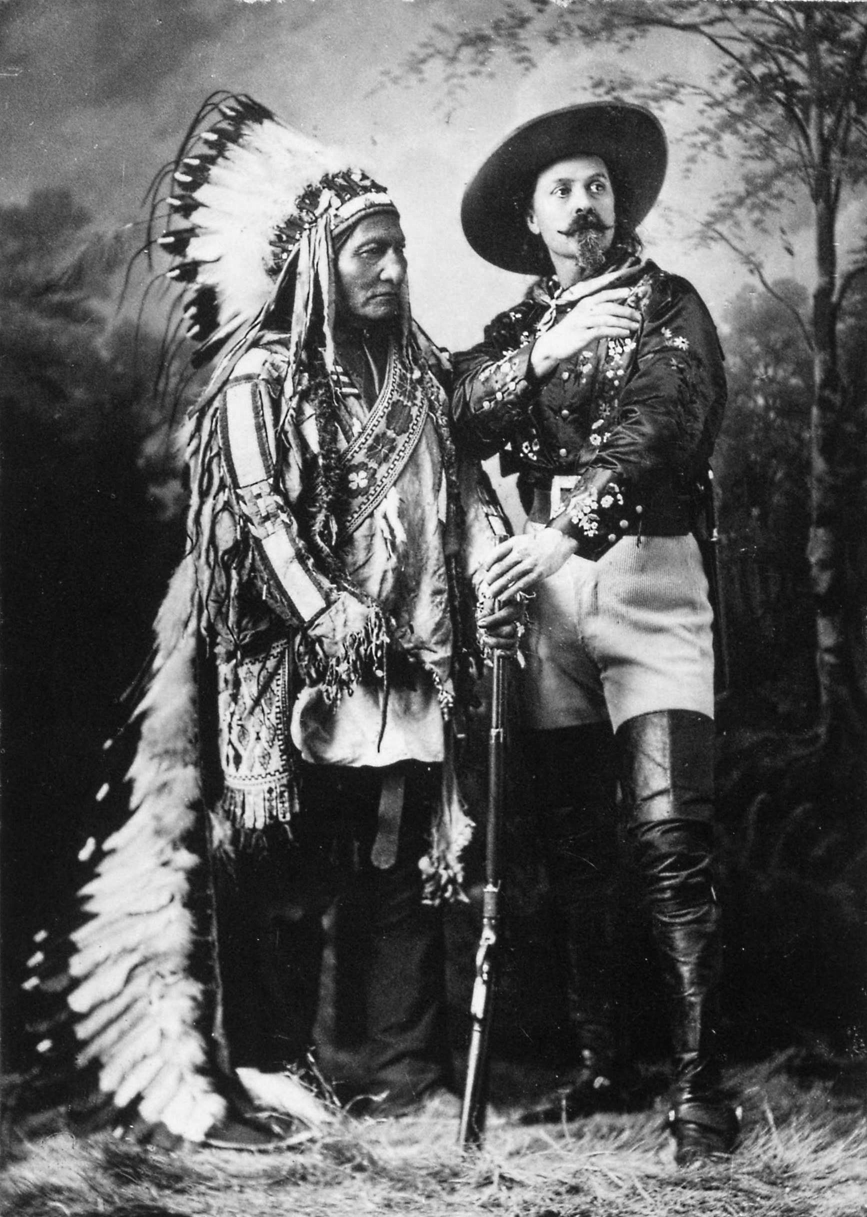 Sitting Bull and Buffalo Bill Cody in Montreal, Quebec during Buffalo Bill's Wild West Show, 1885.